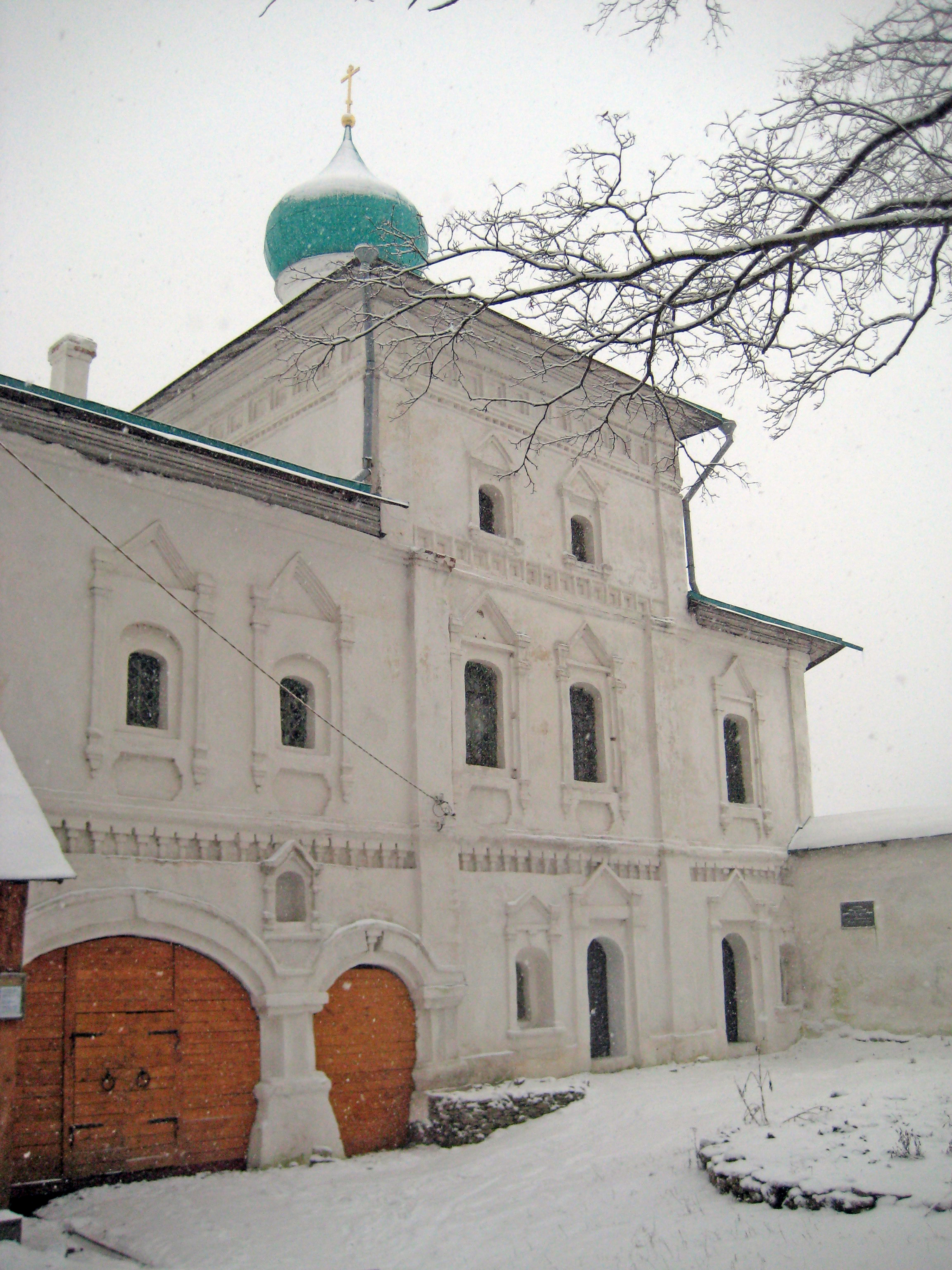 Стефановская Церковь. 17 в. Church of St. Stephan in Mirozh monastery. XVII c.